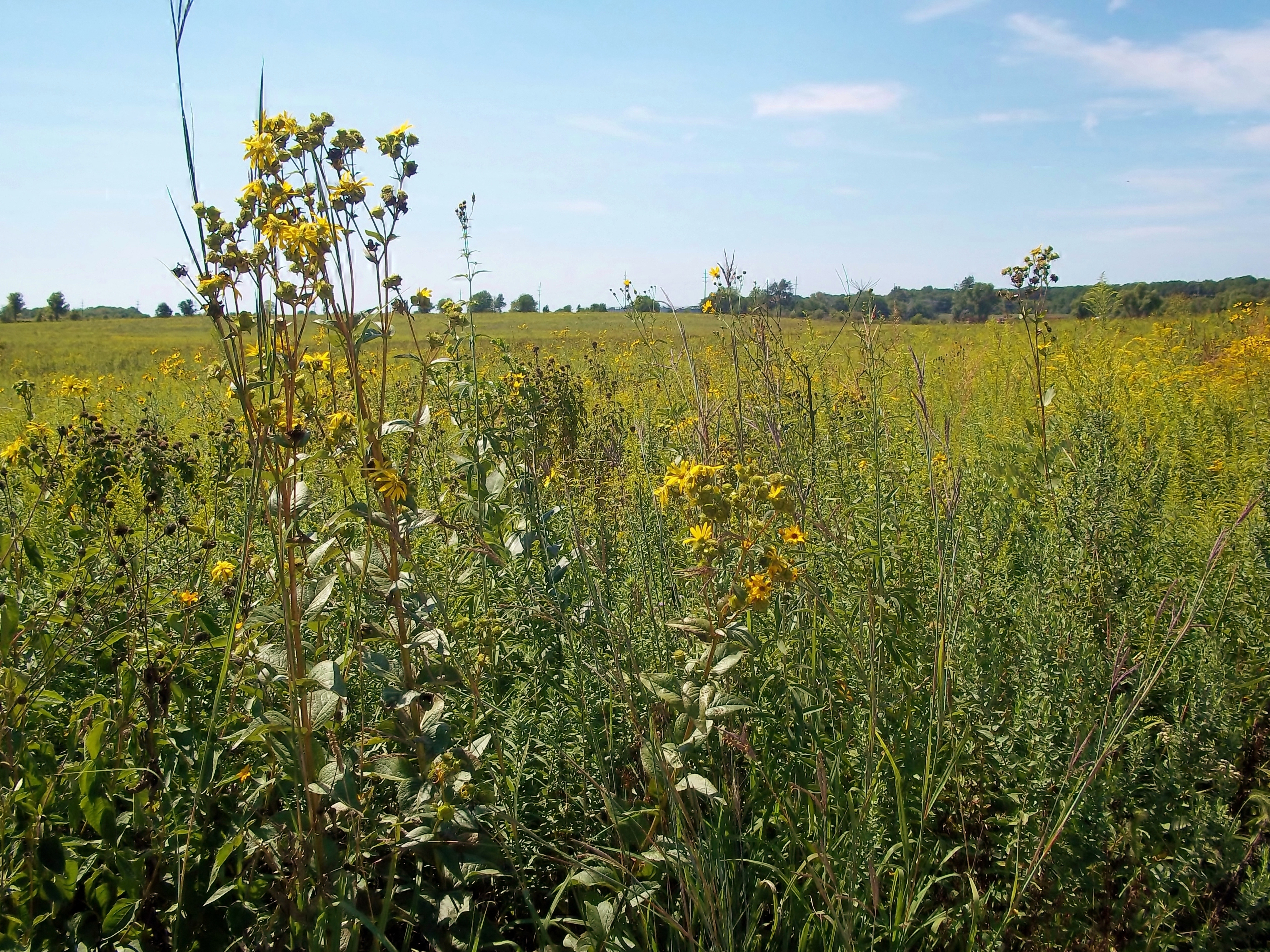 Plants of the Midewin National Tallgrass Prairie. A tallgrass prairie in Will County, northeastern Illinois.